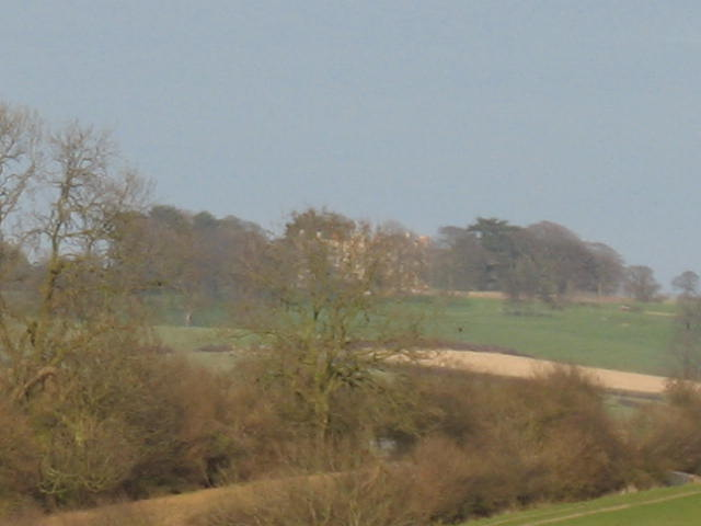 Across the fields to Ingarsby Hall In the distance you can see Ingarsby Hall